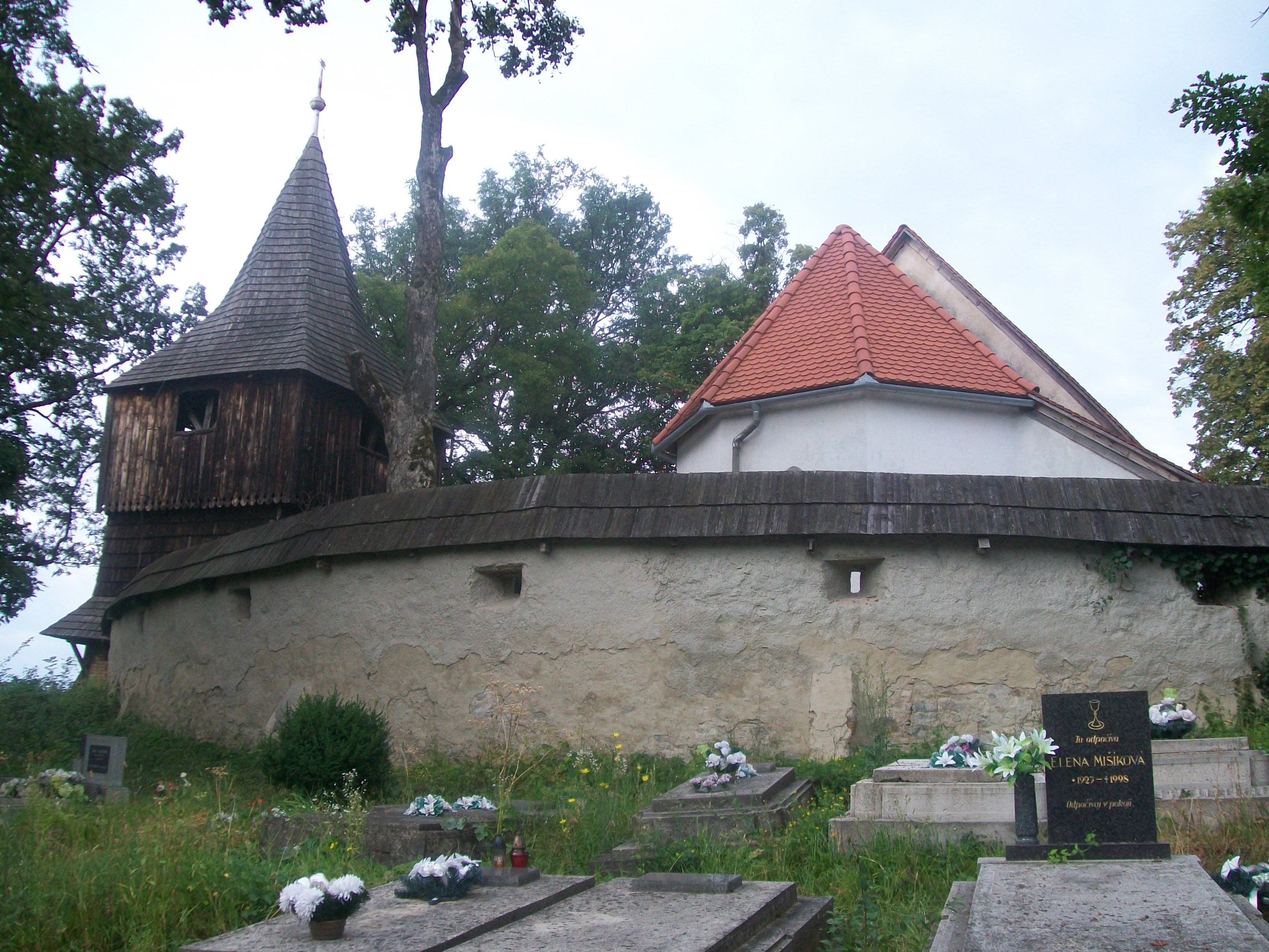 Wall and Church, Historic LandmarkSlovenčina: Múr hradbový a kostol, kultúrna pamiatka Object location48° 28′ 02.17″ N, 19° 33′ 43.2″ E